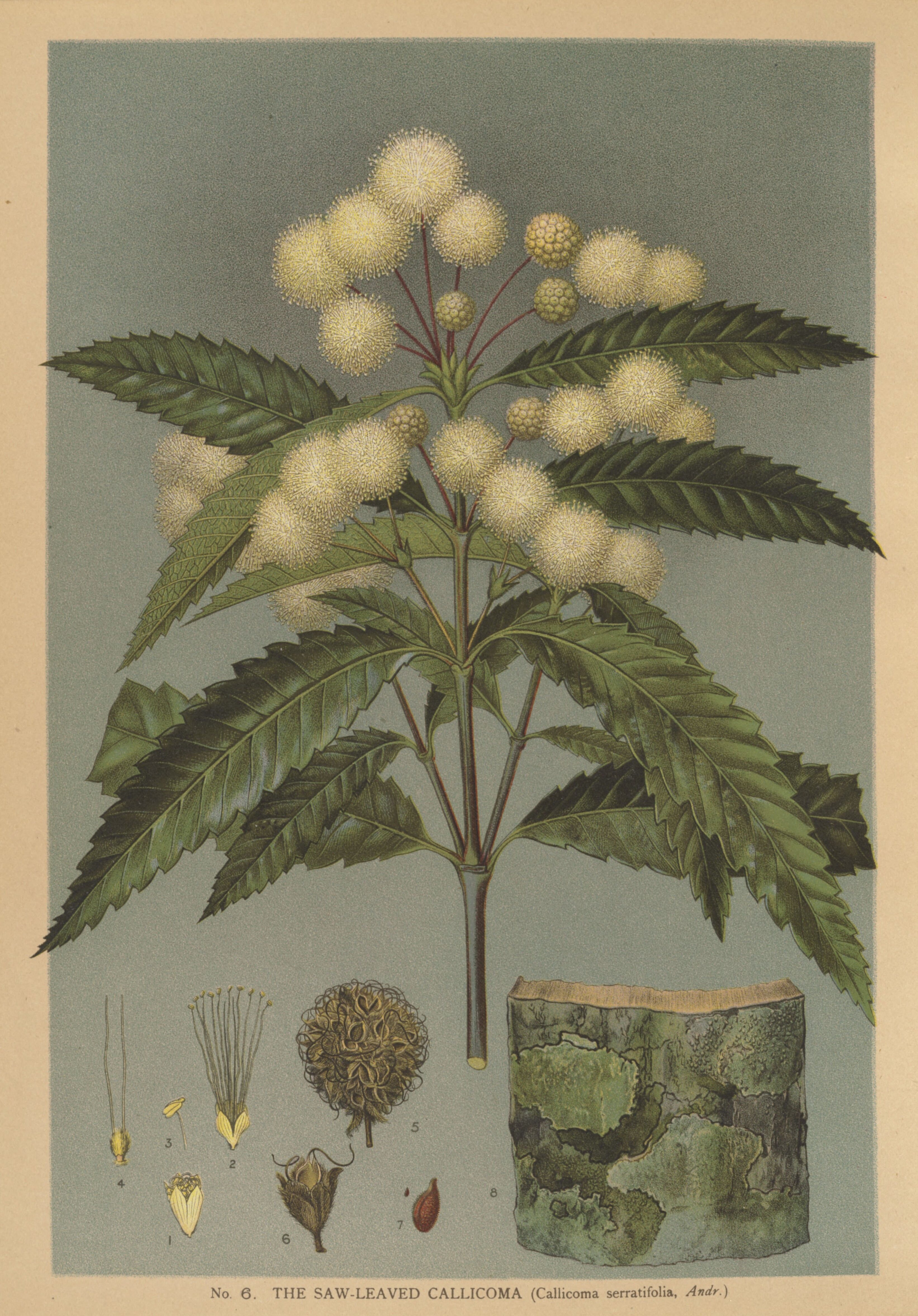 Callicoma serratifolia (Black Wattle) From: The Flowering Plants and Ferns of New South Wales - Part 2 (1895) by J H Maiden. NSW Government Printing Office.